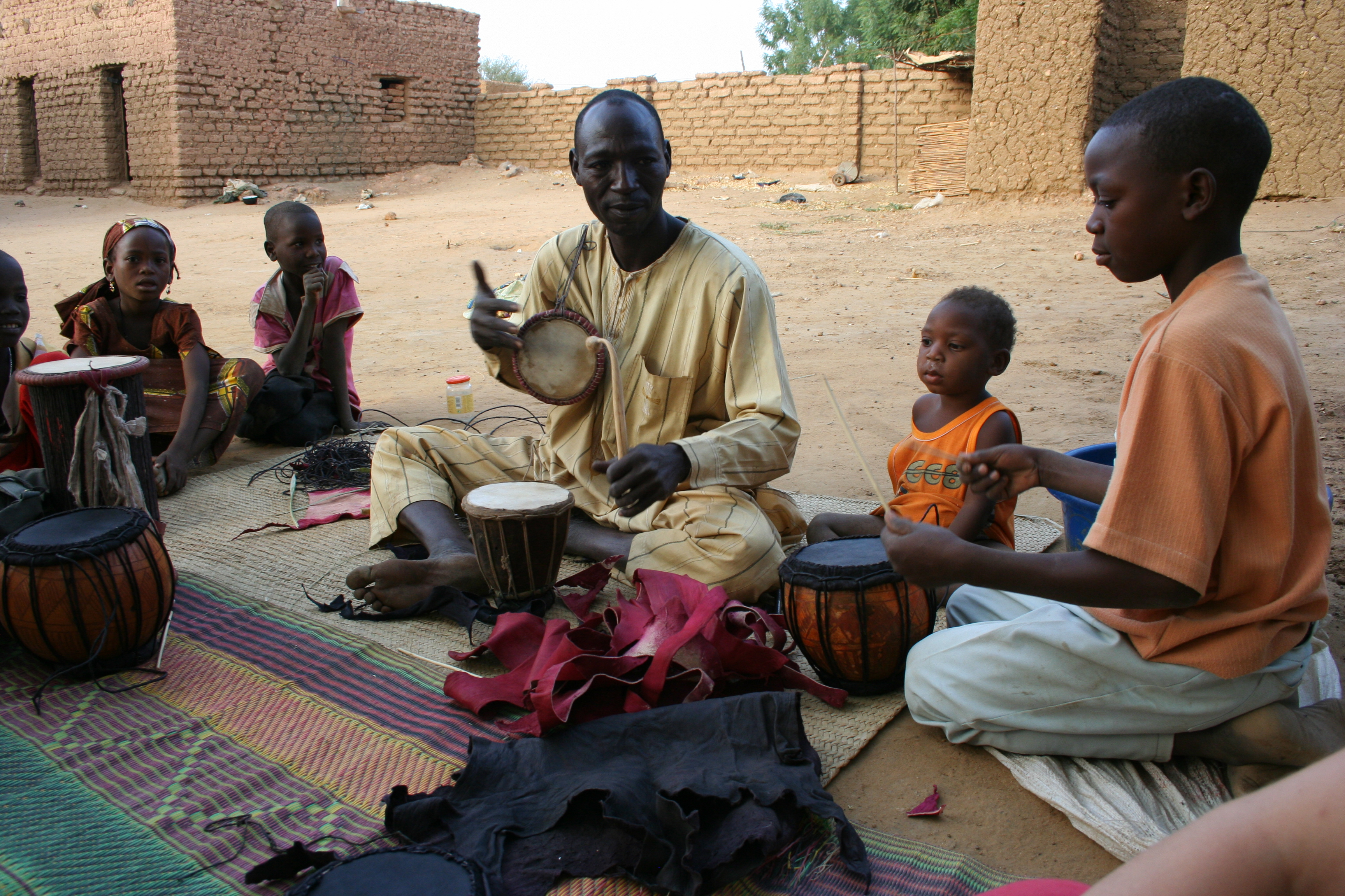 March 16, 2009 - We visited the royal drummaker in Kanché. He's very talented. His whole family (he has a lot of kids) is in the drumming business.